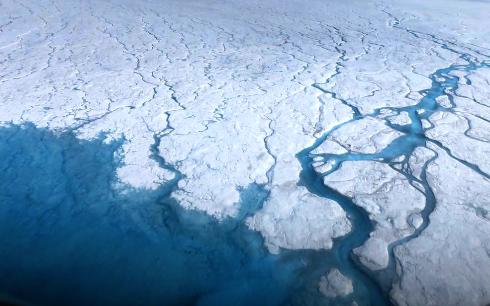 Streams and rivers that form on top of the Greenland ice sheet during spring and summer are the main agent transporting melt runoff from the ice sheet to the ocean. “Surface melting in Greenland has increased recently, and we lacked a rigorous estimate of the water volumes being produced and their transport,” said Tom Wagner, the cryosphere program scientist at NASA Headquarters in Washington. “NASA funds fieldwork like Smith’s because it helps us to interpret satellite data, and to extrapolate measurements from the local field sites to the larger ice sheet." Credit: NASA/Goddard/Maria-José Viñas Read more: NASA image use policy. NASA Goddard Space Flight Center enables NASA’s mission through four scientific endeavors: Earth Science, Heliophysics, Solar System Exploration, and Astrophysics. Goddard plays a leading role in NASA’s accomplishments by contributing compelling scientific knowledge to advance the Agency’s mission. Follow us on Twitter Like us on Facebook Find us on Instagram